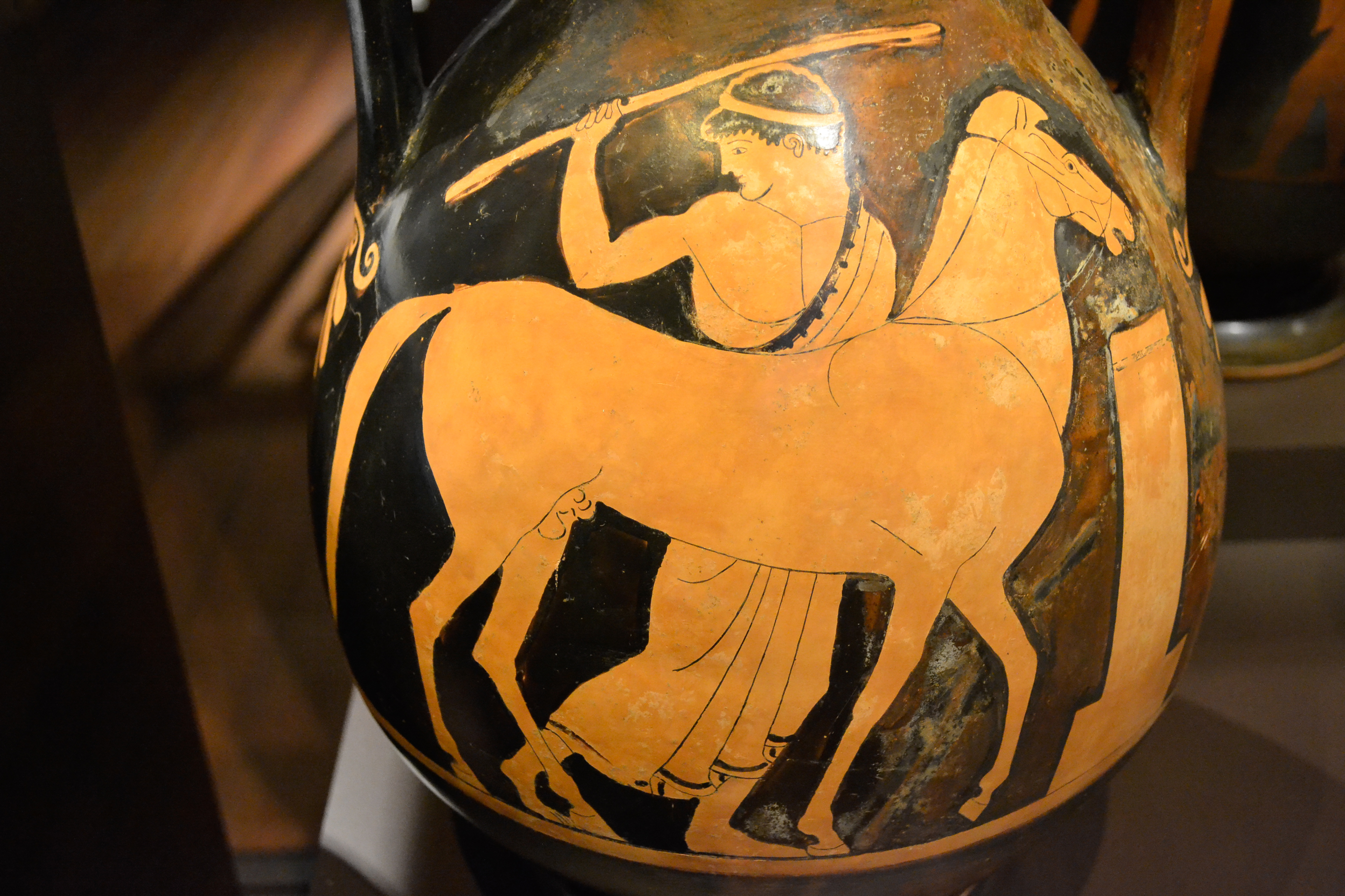 Pelice depicting the inspection of young riders. From Attica. 480 BC. Archaelogical National Museum of Spain.